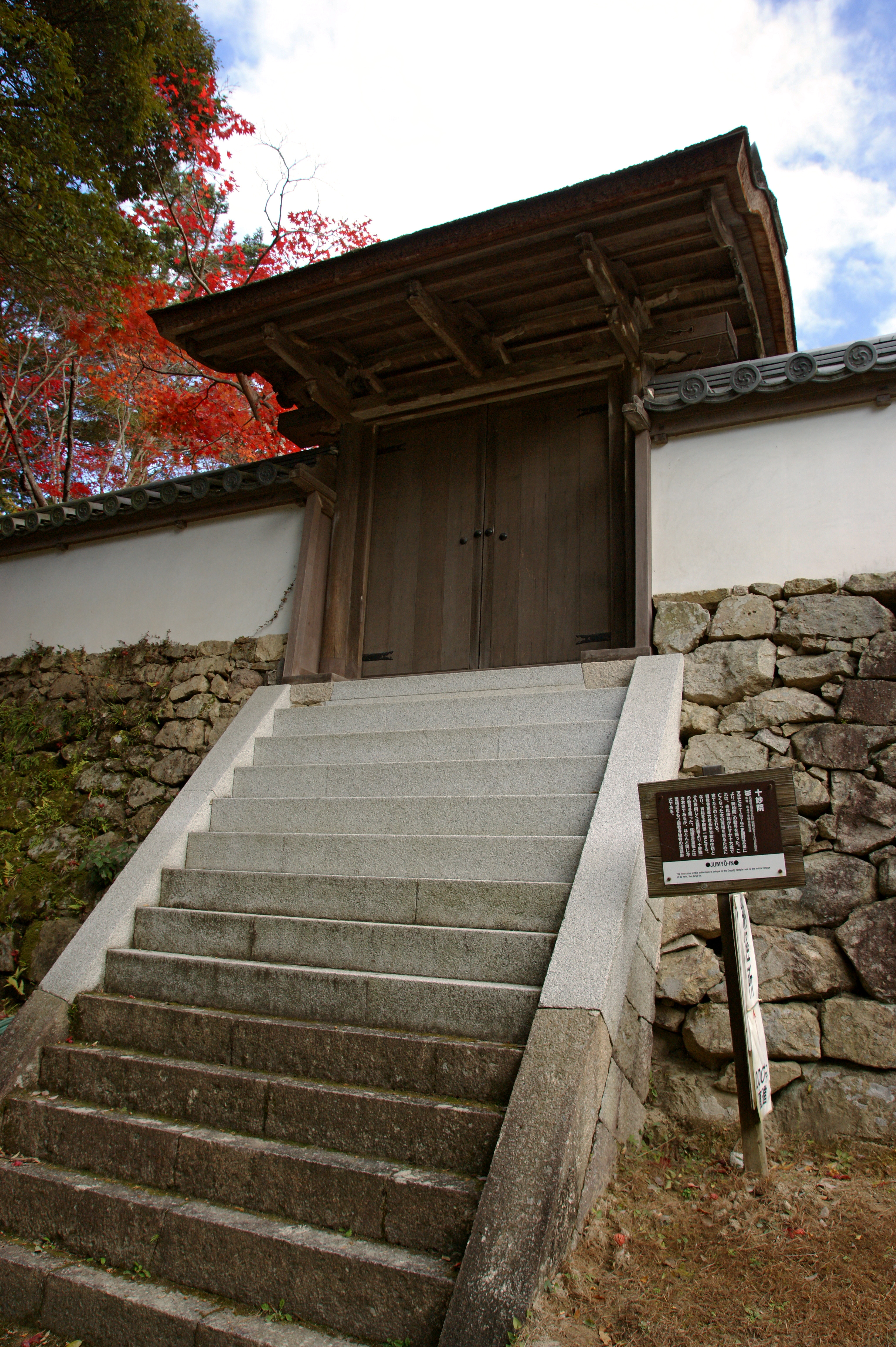 Engyoji, Himeji, Hyogo prefecture, Japan